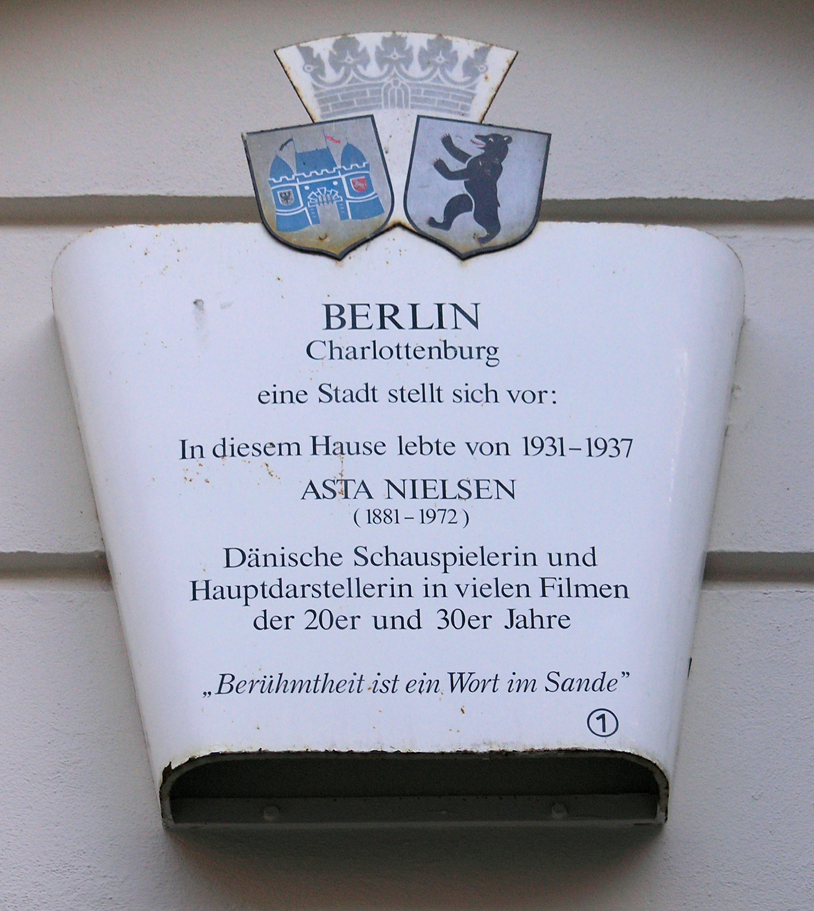 Memorial plaque, Asta Nielsen, Fasanenstraße 69, Berlin-Charlottenburg, Germany Koordinate:52°30′4″N 13°19′39″E / 52.50111°N 13.3275°E